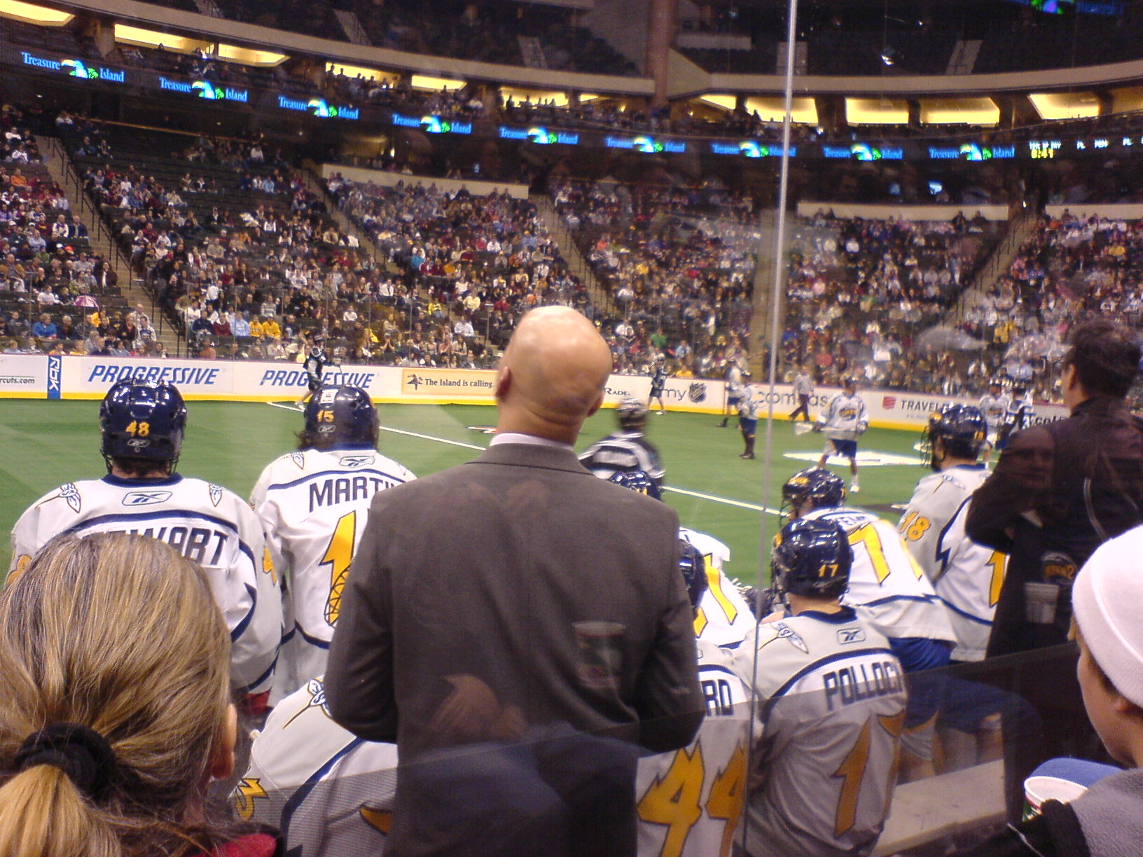 A view from behind the bench at a Minnesota Swarm lacrosse game